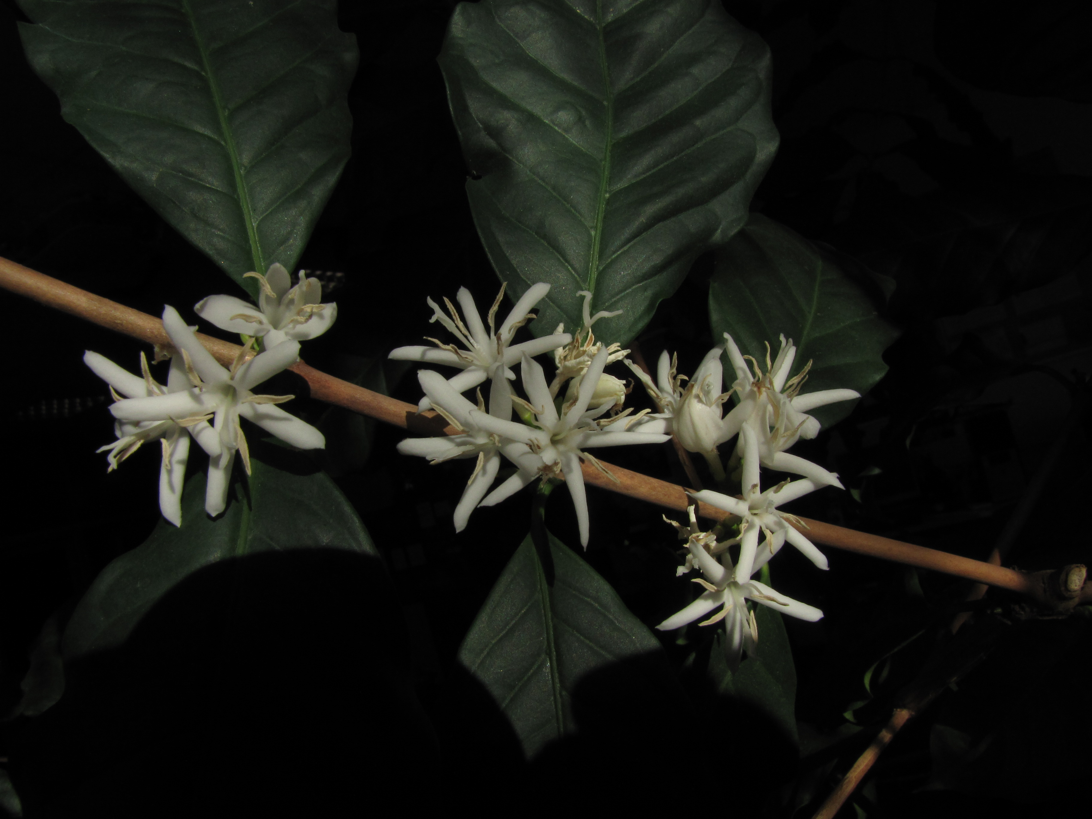 Coffee flowers